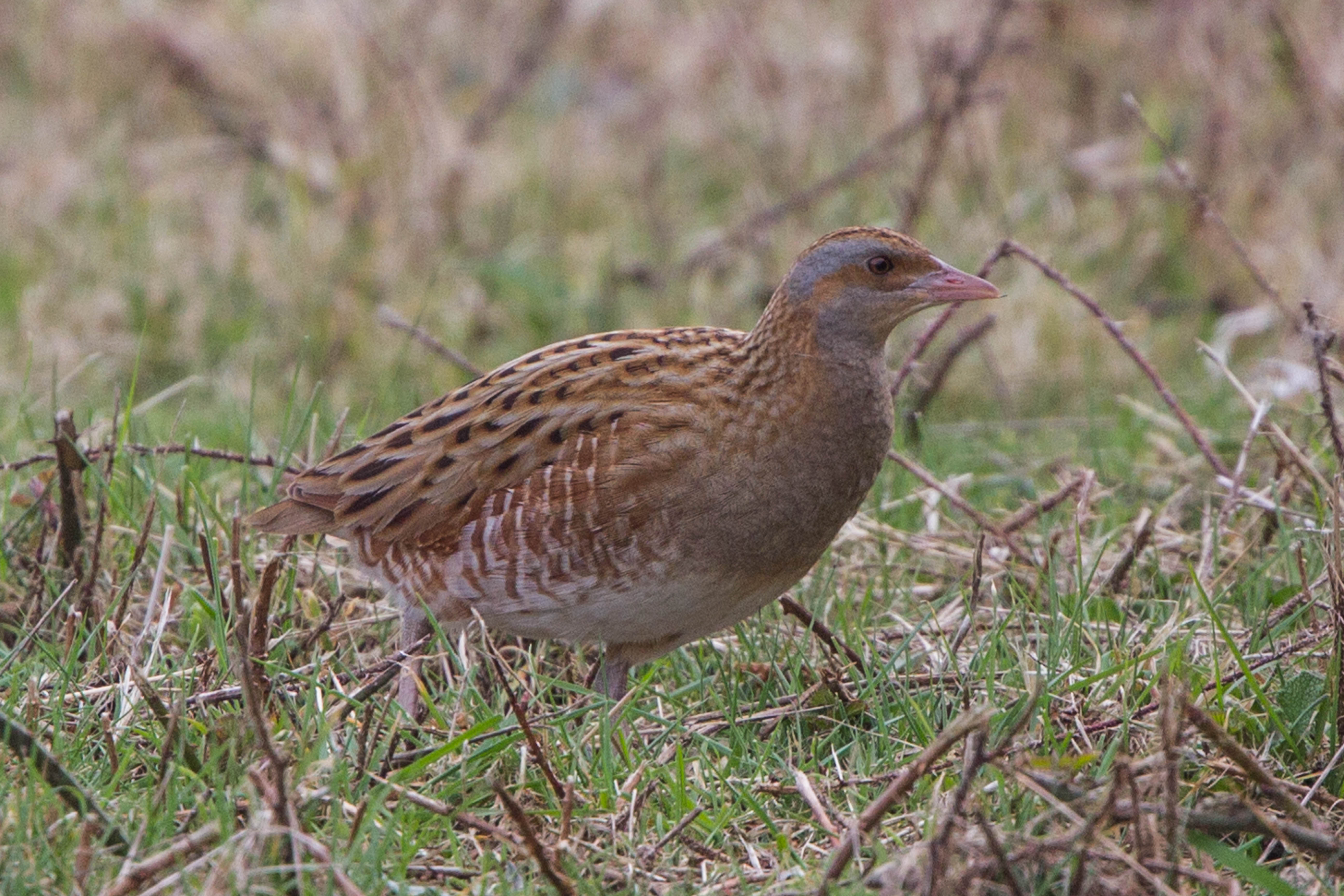 A Corn Crake Crex crex, at Chat Vale, Beachy Head, Sussex